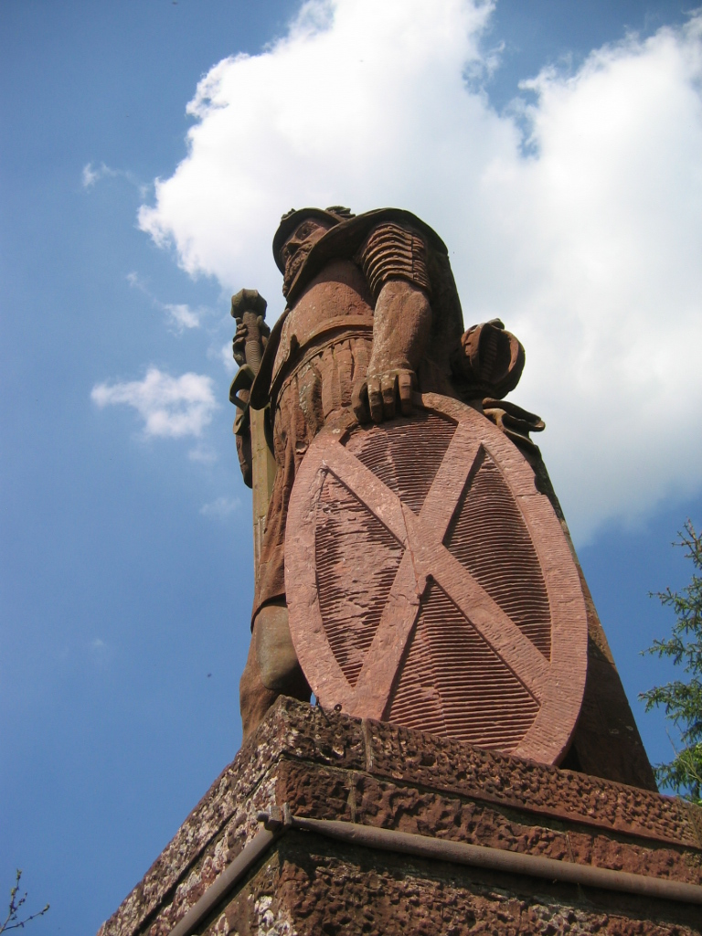 Wallace Statue at Bemersyde House, Scottish Borders